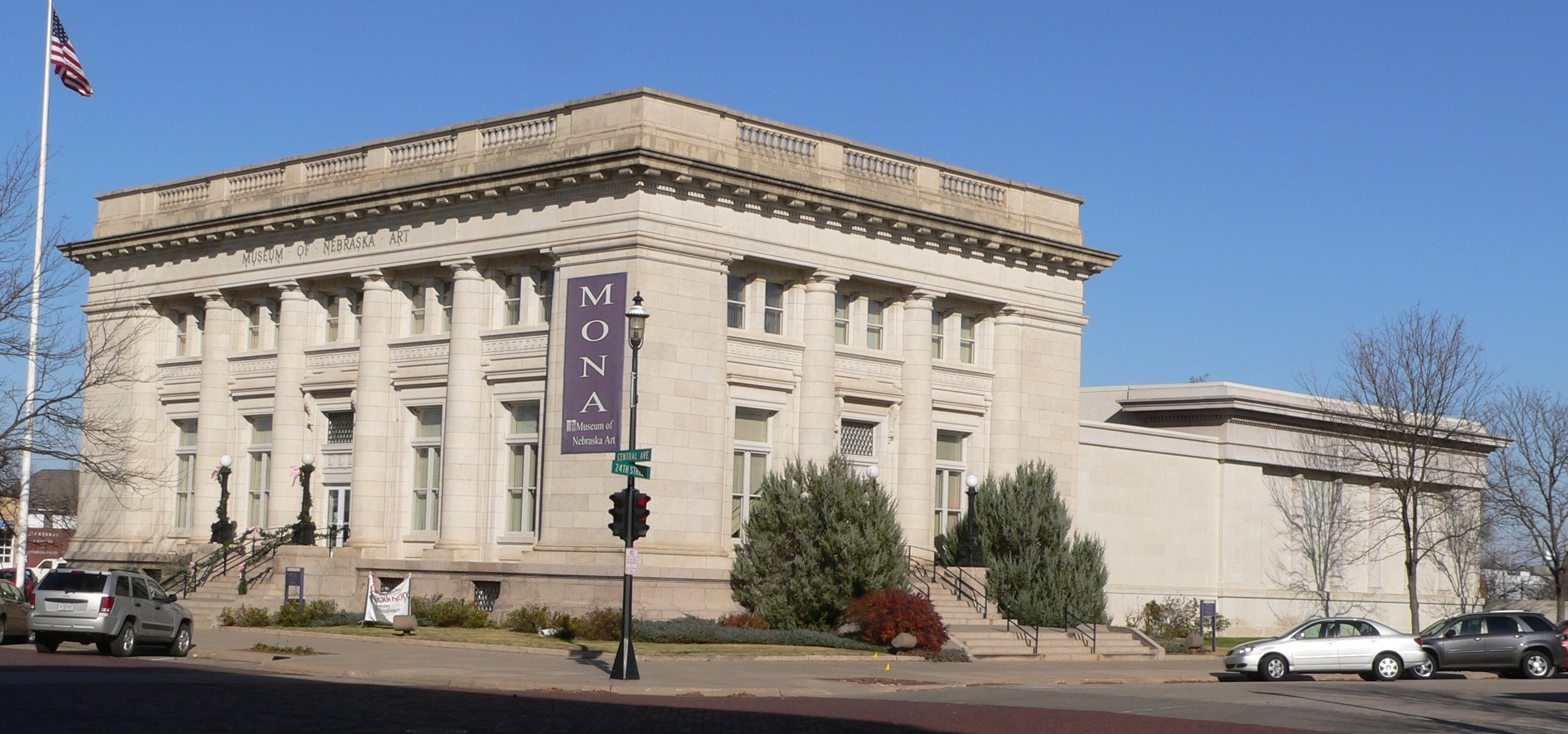 Museum of Nebraska Art at 2401 Central Ave., Kearney, Nebraska, seen from the southwest. The building was originally the U.S. Post Office; it was designed in Classical Revival style by architect James Knox Taylor. The cornerstone was laid in 1909. The building is on the National Register of Historic Places.